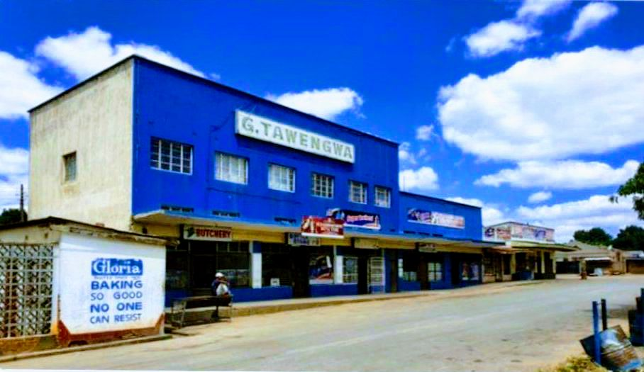 Mushandira Pamwe Center in Marondera